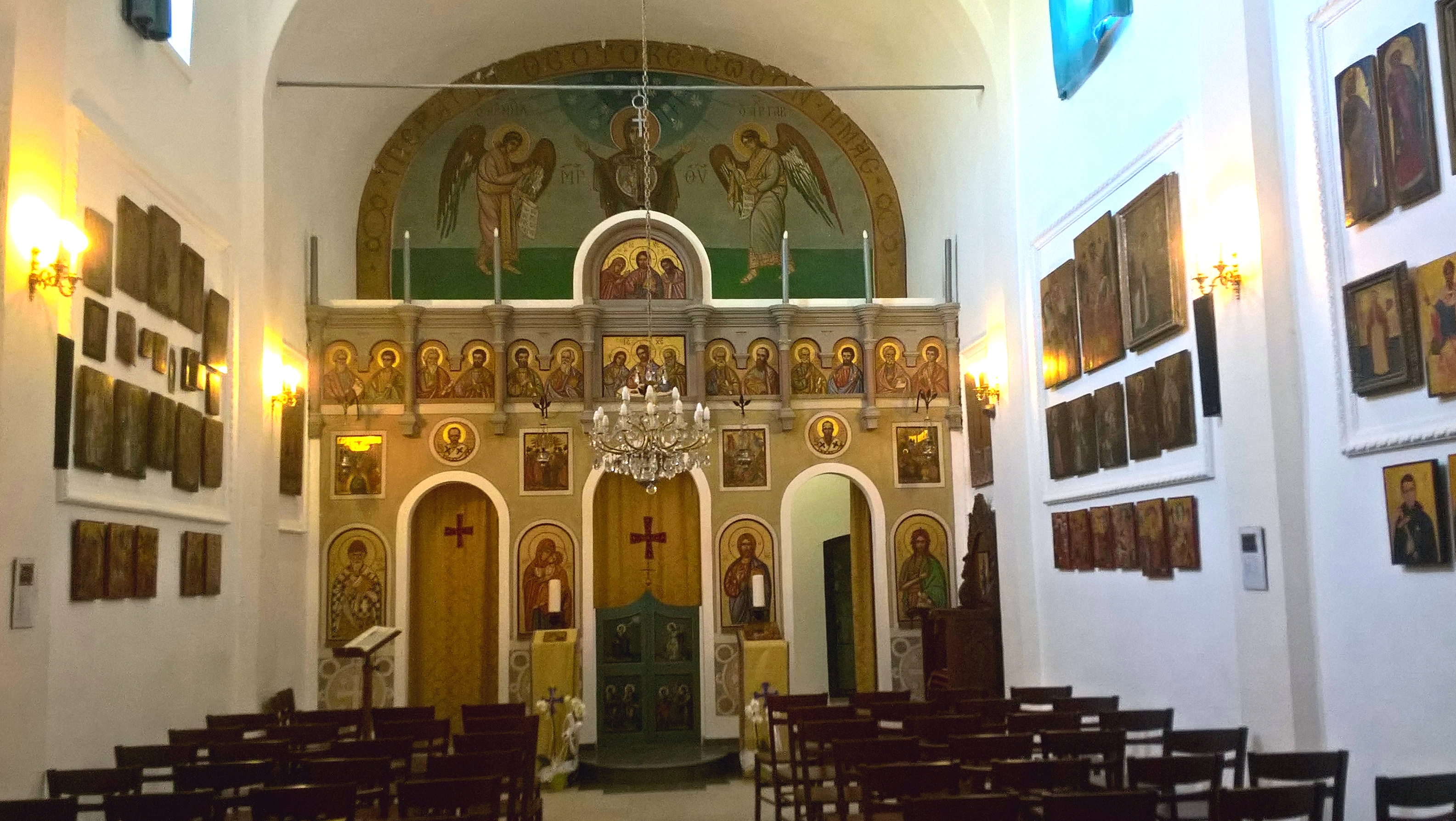 Chiesa Santa Maria Assunta in Villa Badessa - inside view